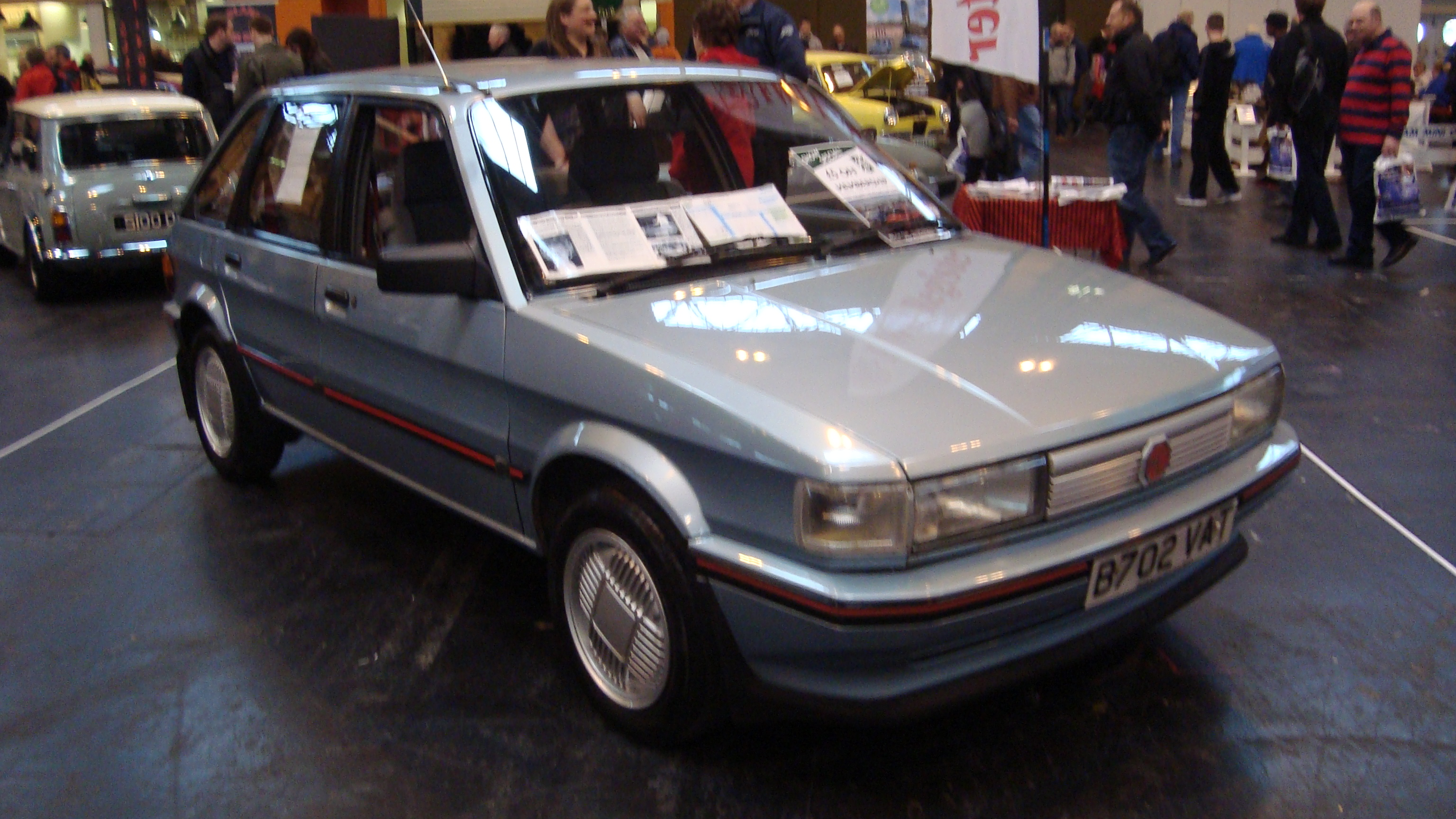 Always nice to see a Maestro. There were a few in the show and a gold A reg one in the car park